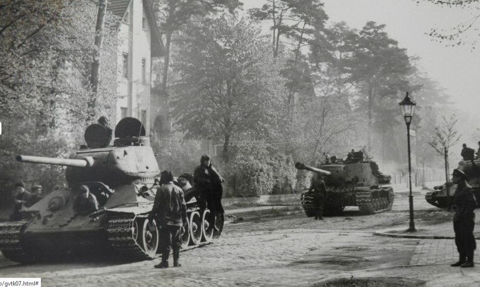 Soviet tanks T-34/85 of the 7th Guards tank corps in action into Berlin (april 1945)